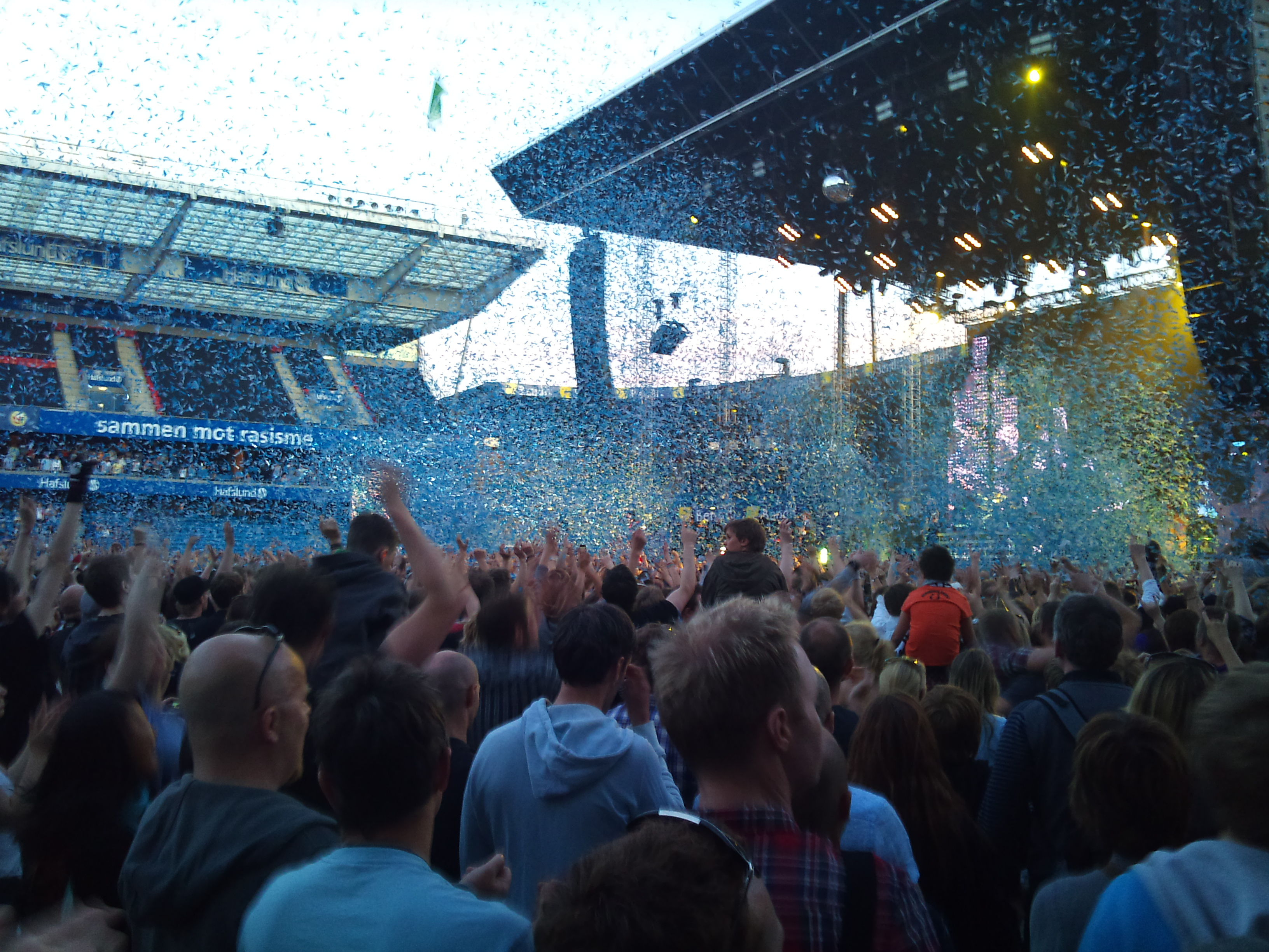 Green Day concert at Ullevaal stadion in Oslo, Norway